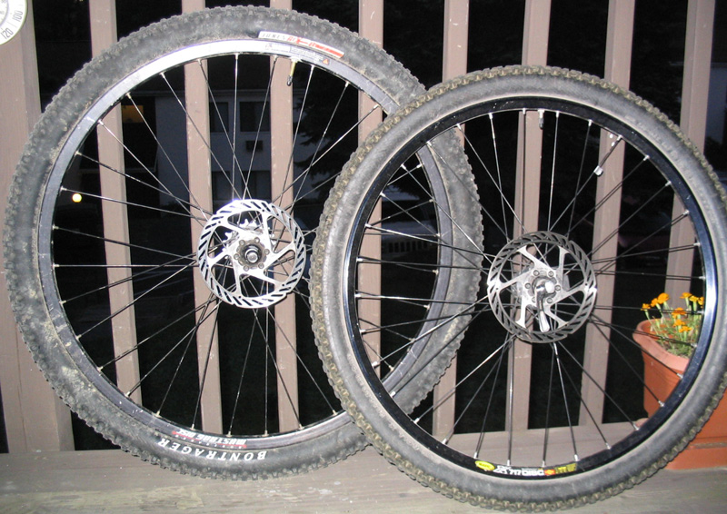 Photo of a 29" and 26" mountain bike wheel with similar tires to show the relative sizes. The tire on the 26" wheel is a Specialized Roll-X 2.0" and the tire on the 29" wheel is a Bontrager ACX 2.2".